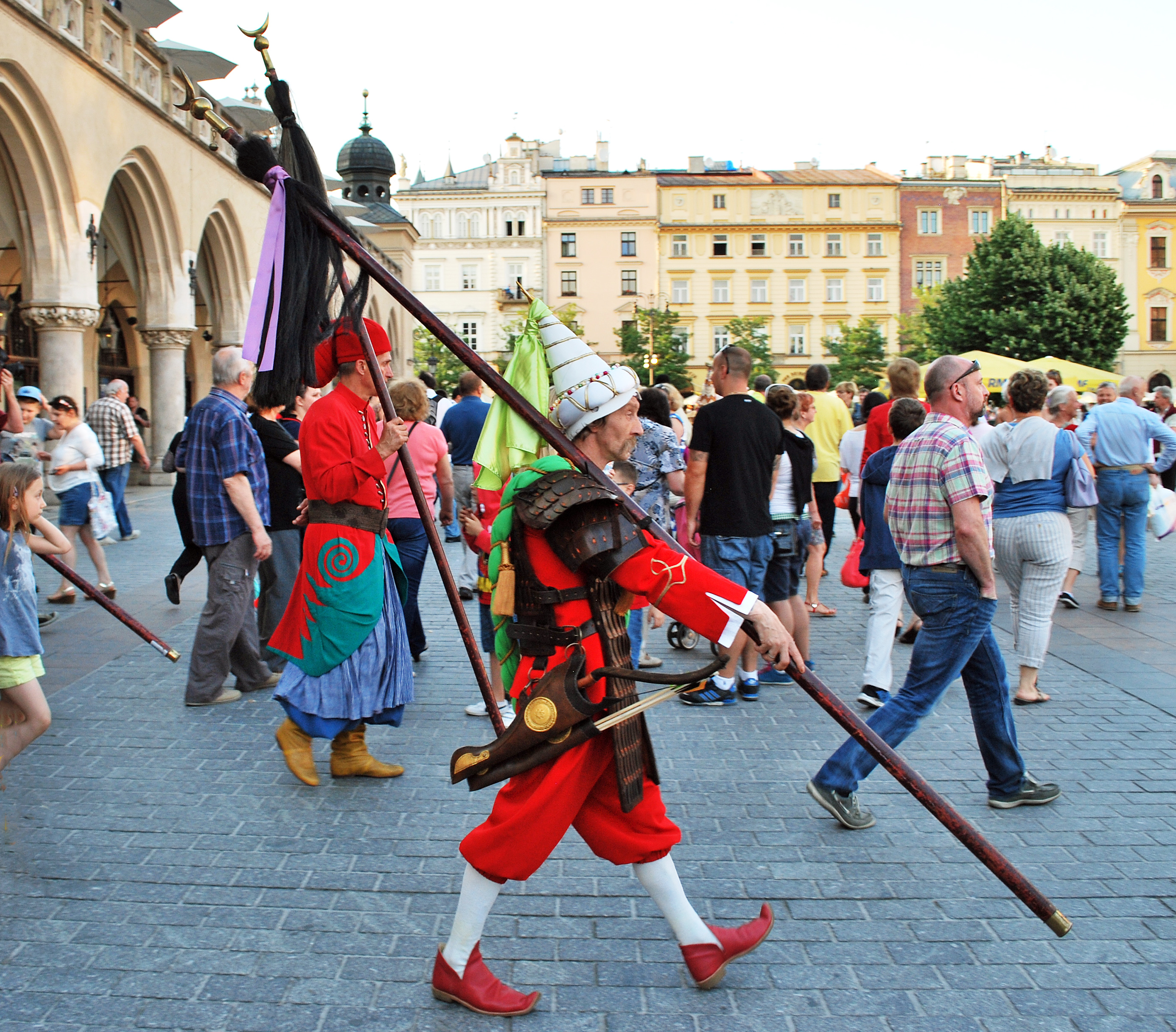 Włóczkowie (Tatar warriors), 2015 Lajkonik fete, Main Market Square, Old Town, Kraków, Poland